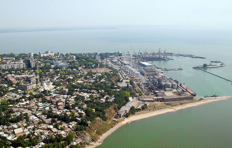 The Port of Taganrog, Rostov Oblast, Russia.